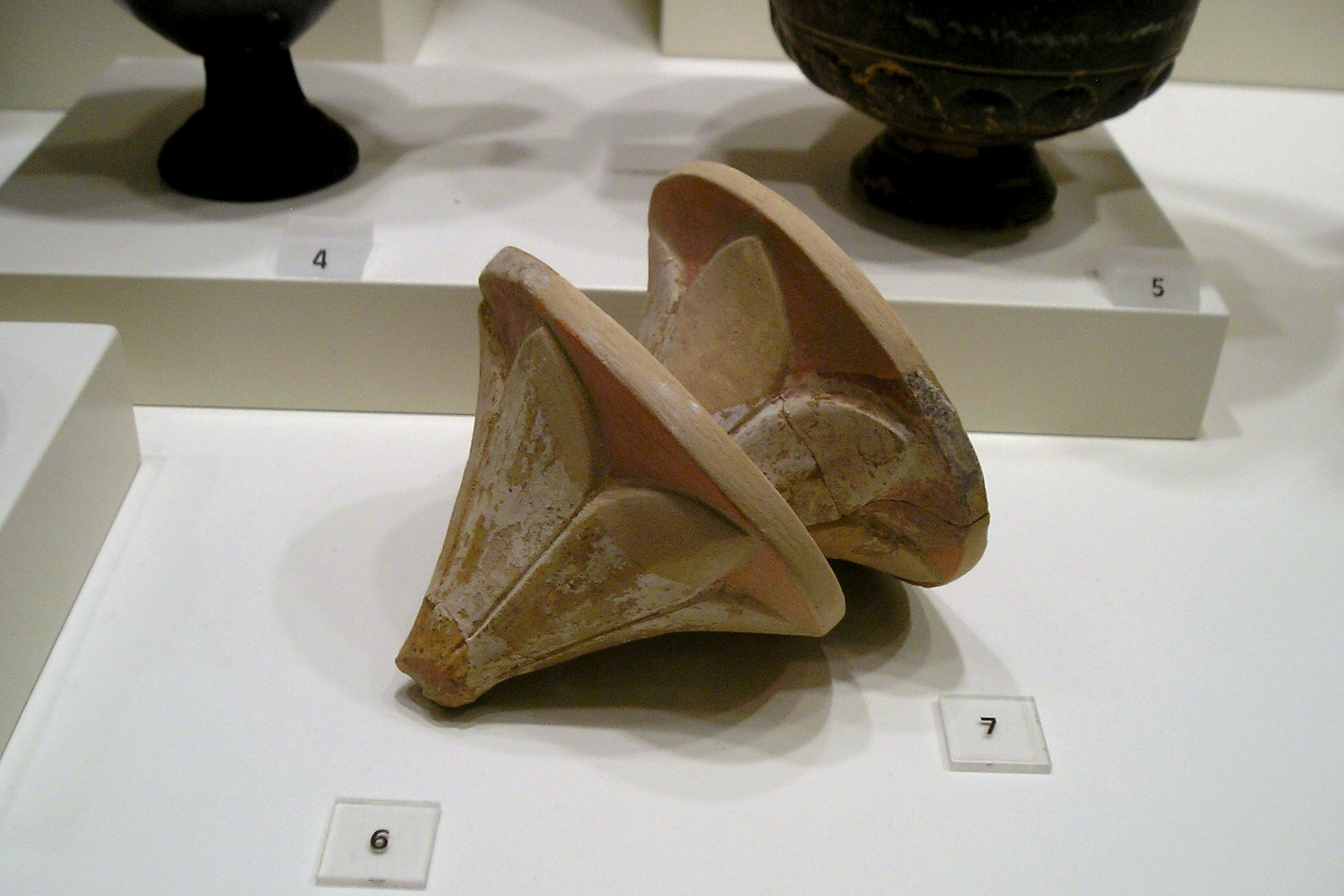 Architectural (?) articles in the shape of flower chalices, terracotta. Agia Pelagia (Crete), 300-100 BC. Archaeological Museum of Heraklion.